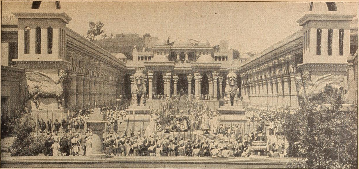 Film still depicting the Saul's palace set from the 1923 lost film The Shepherd King